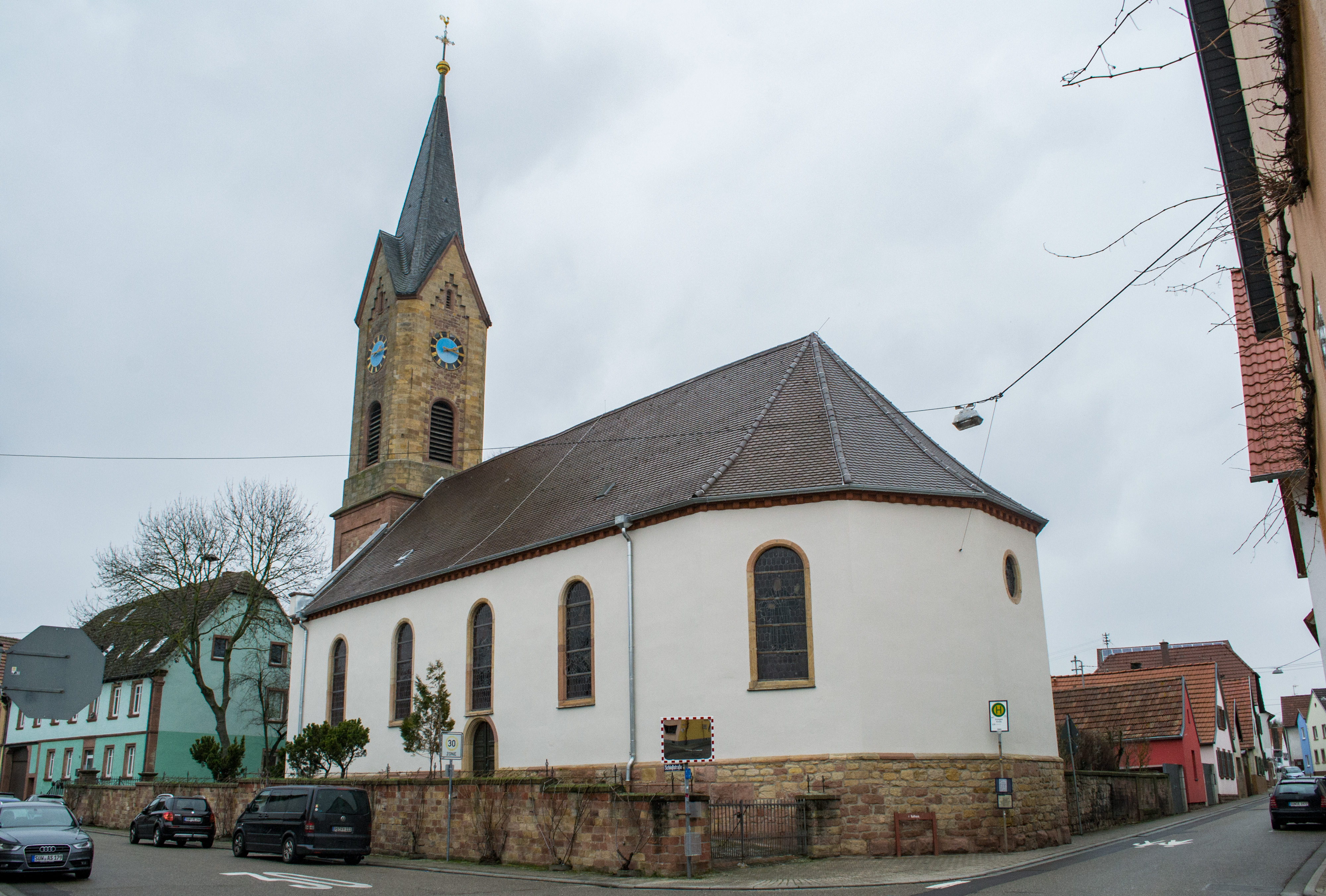 Protestant church in Essingen (Palatinate).